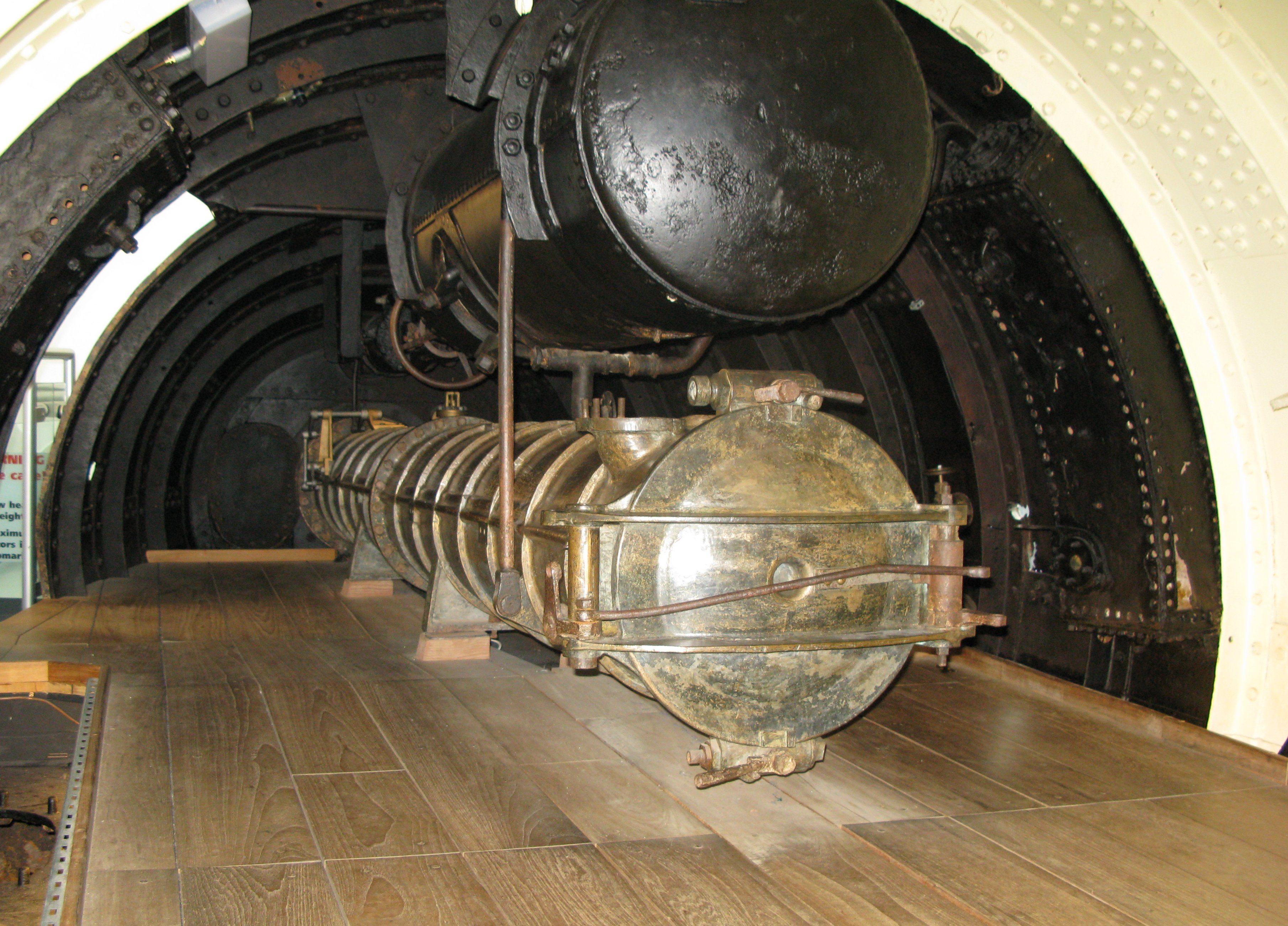 A photo of the Torpedo tube on Holland 1 post conservation